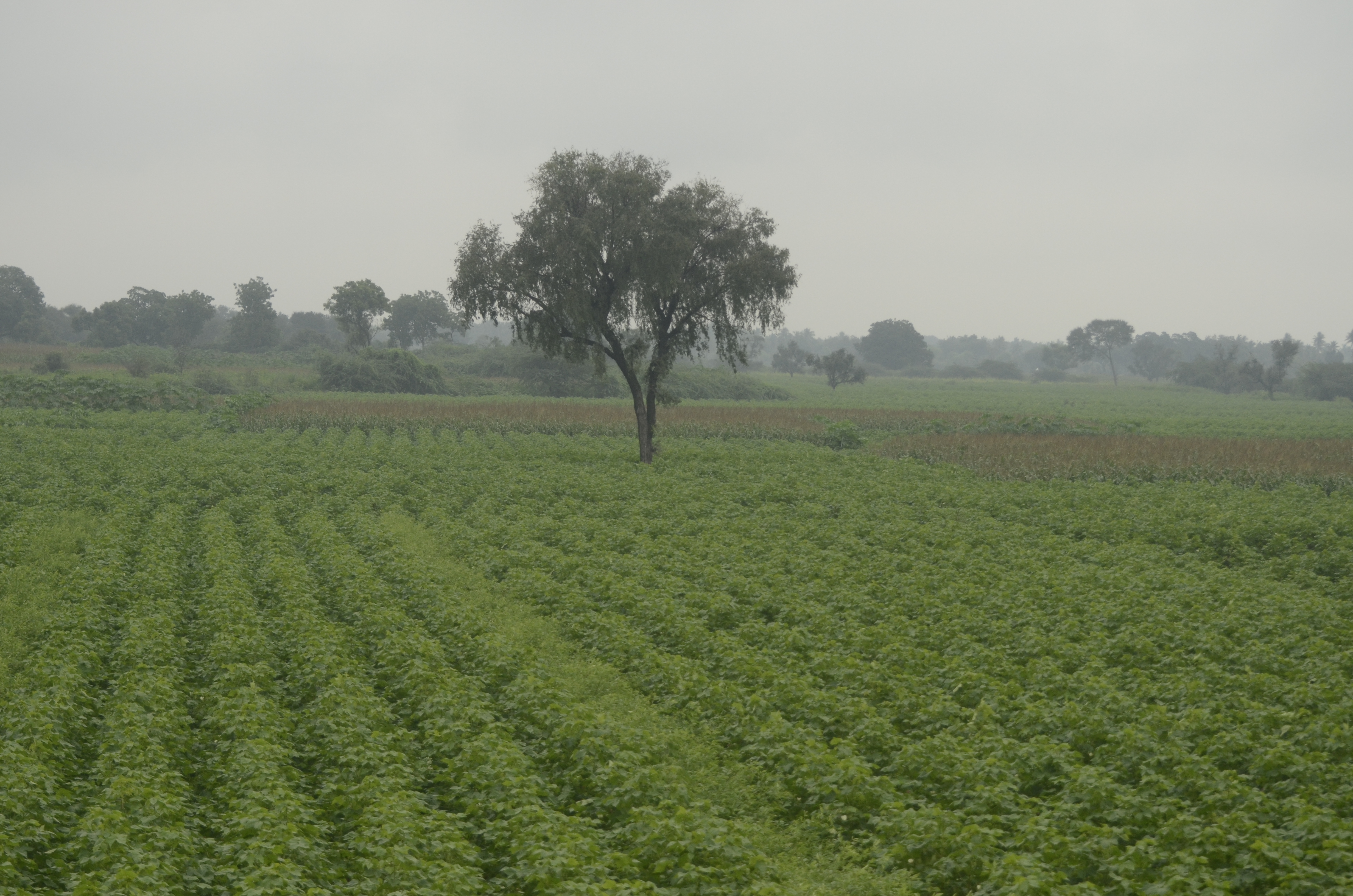 Cotton field in Sathanur, Perambalur Distirct